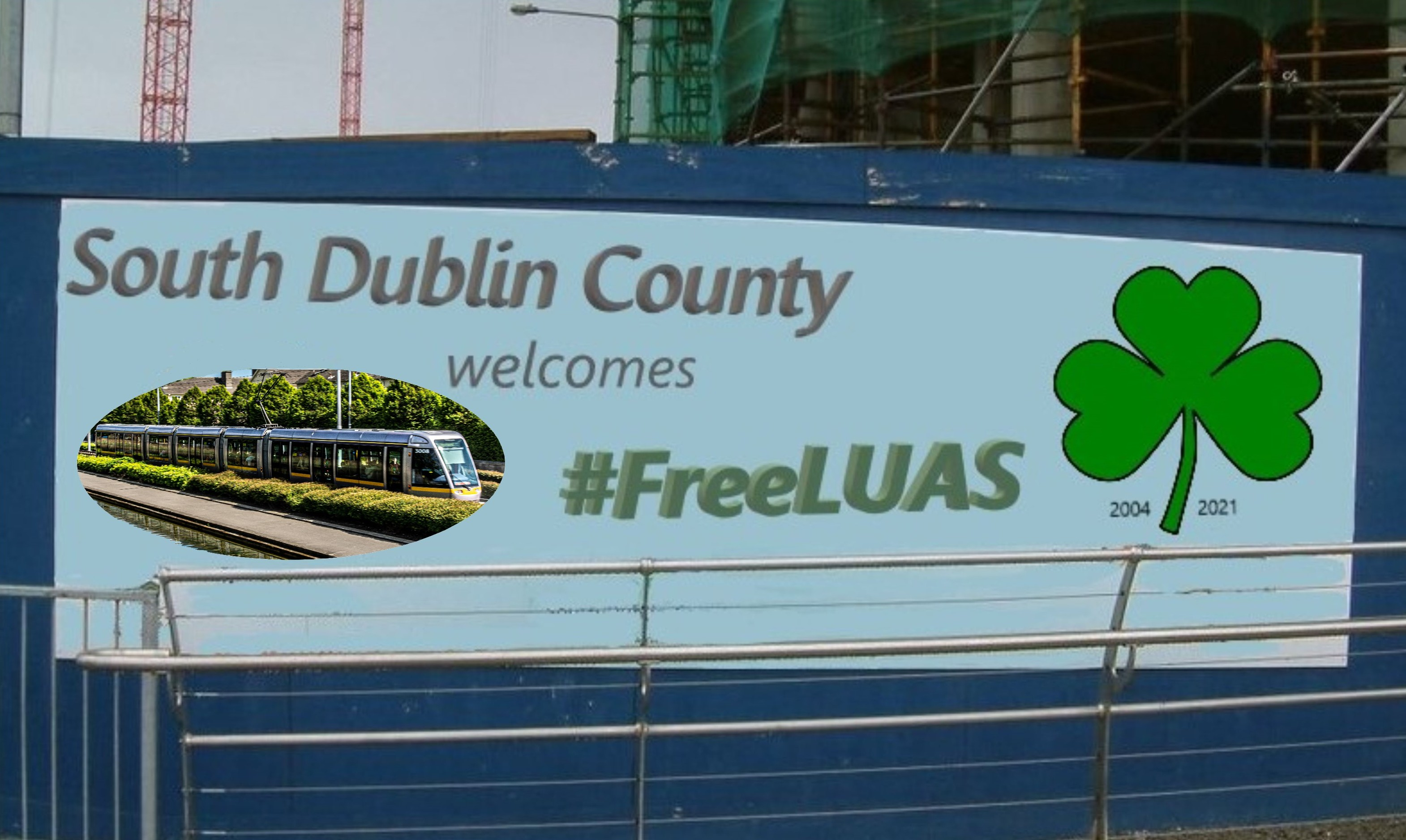 Taken by myself in 2004